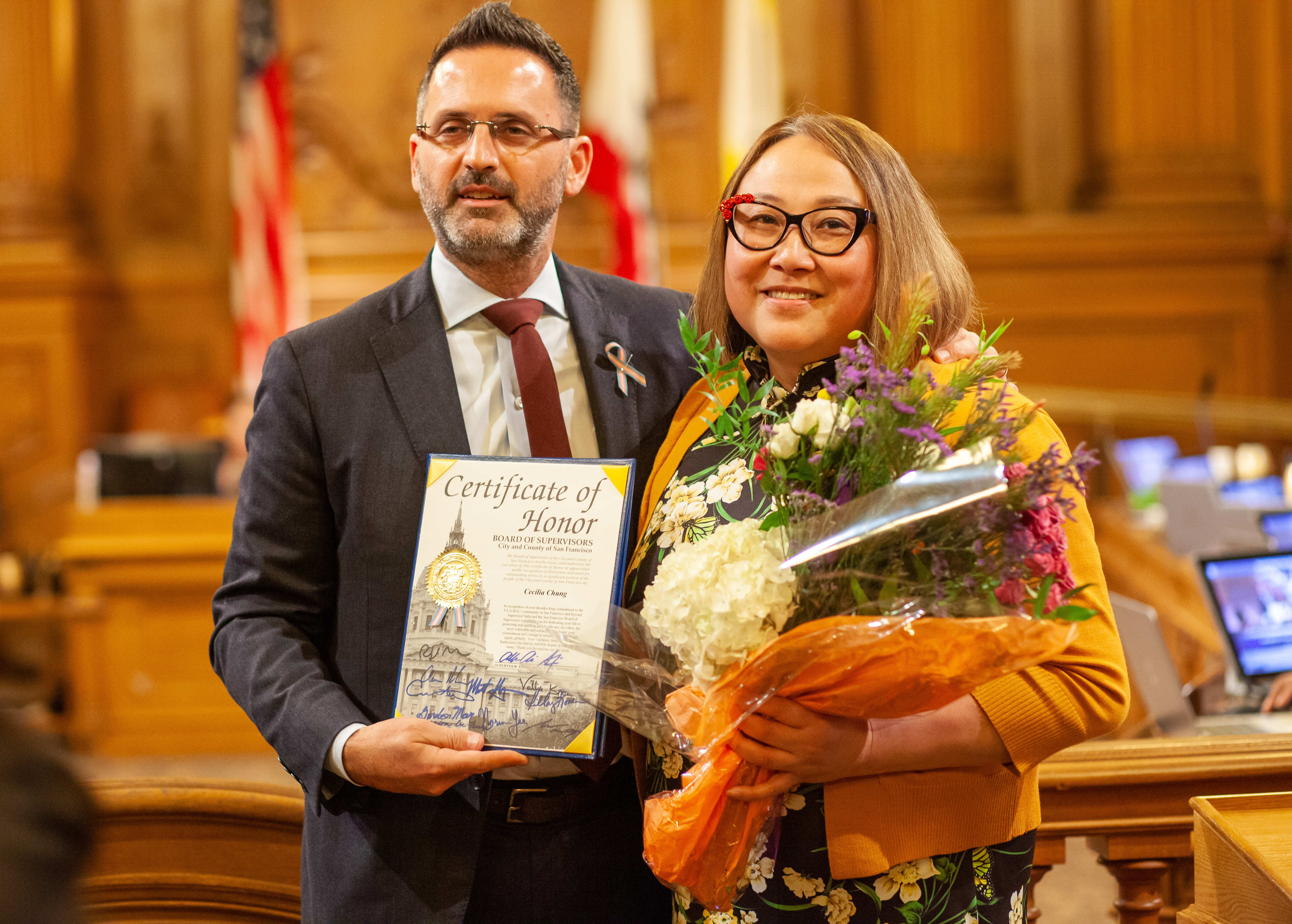 San Francisco Supervisor Ahsha Safaí presents a certificate of honor and bouquet of flowers to Cecilia C Chung at a Board of Supervisors meeting during Transgender Awareness Week.